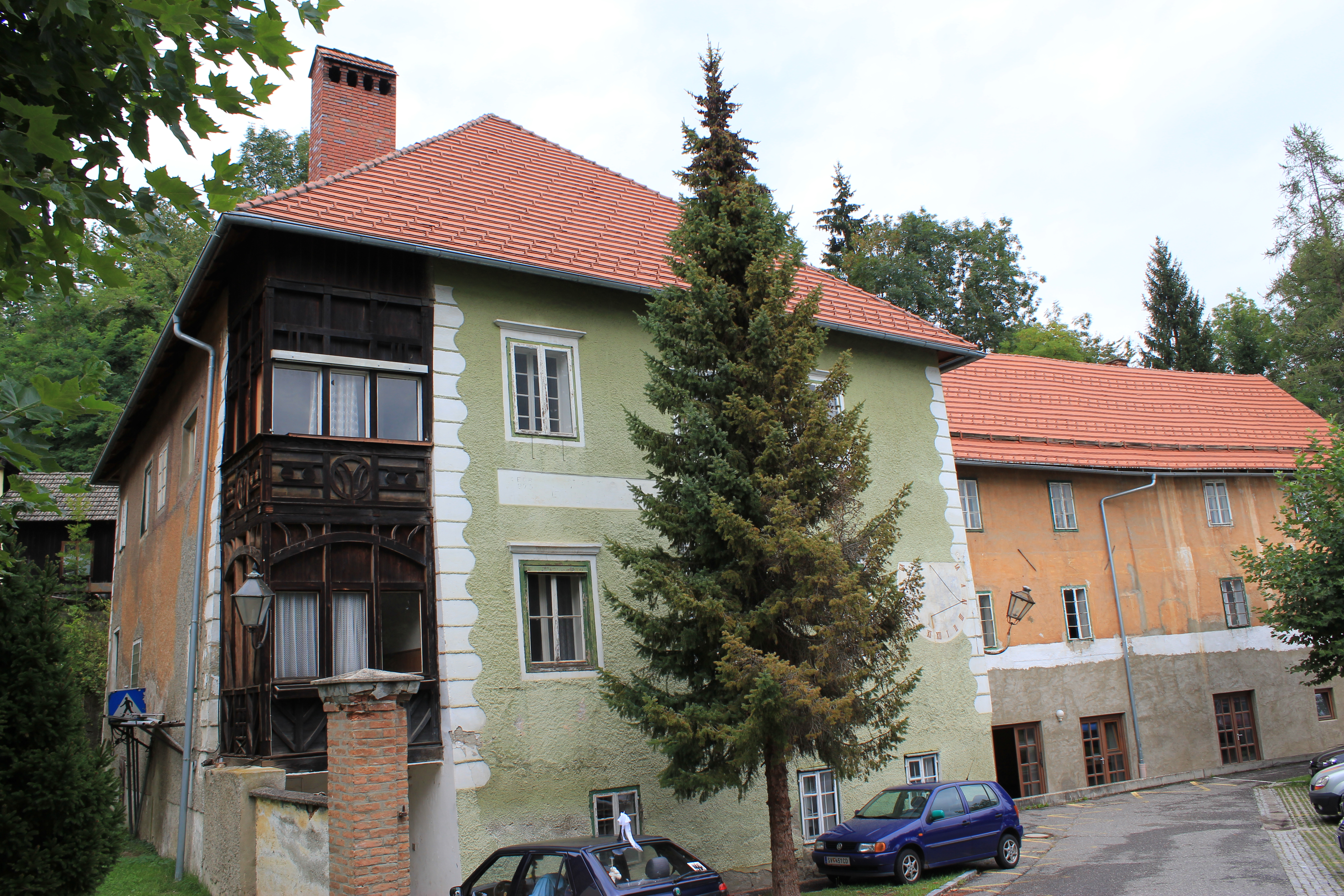 Däber-estate in Sankt Veit an der Glan